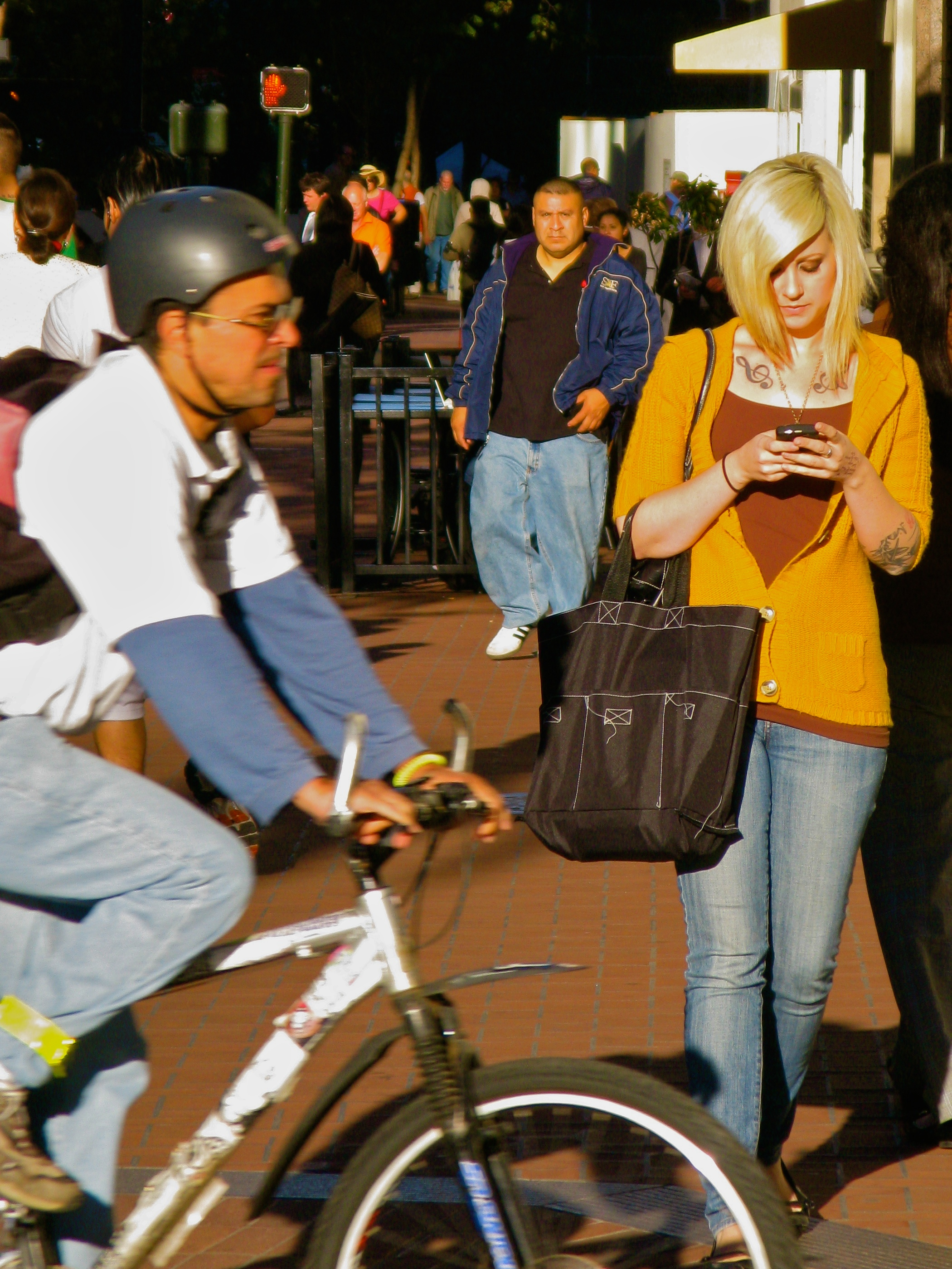 This was taken at the corner of Market and New Montgomery Street, as I was walking back to the Palace Hotel for the next session of the Web 2.0 conference I was attending. The sun was behind me, and I thought it provided some nice lighting for the blonde woman approaching me on the other side of the intersection. It wasn't until I uploaded the image onto my computer that I noticed her tattoos... Note: this photo was published in a Jul 18, 2010 blog titled "Lessons from unmaking urban mistakes." And slightly more than a year later, it was published in a Jul 19, 2011 blog titled "Philadelphia cracks down on texting and walking." Moving into 2012, the photo was published in an Apr 18, 2012 blog titled "Prompt #306 Texting and Walking." It was also published in an Aug 1, 2012 German enGadget blog titled "USA: Gadget-indizierte Verkehrsunfälle in sieben Jahren vervierfacht."